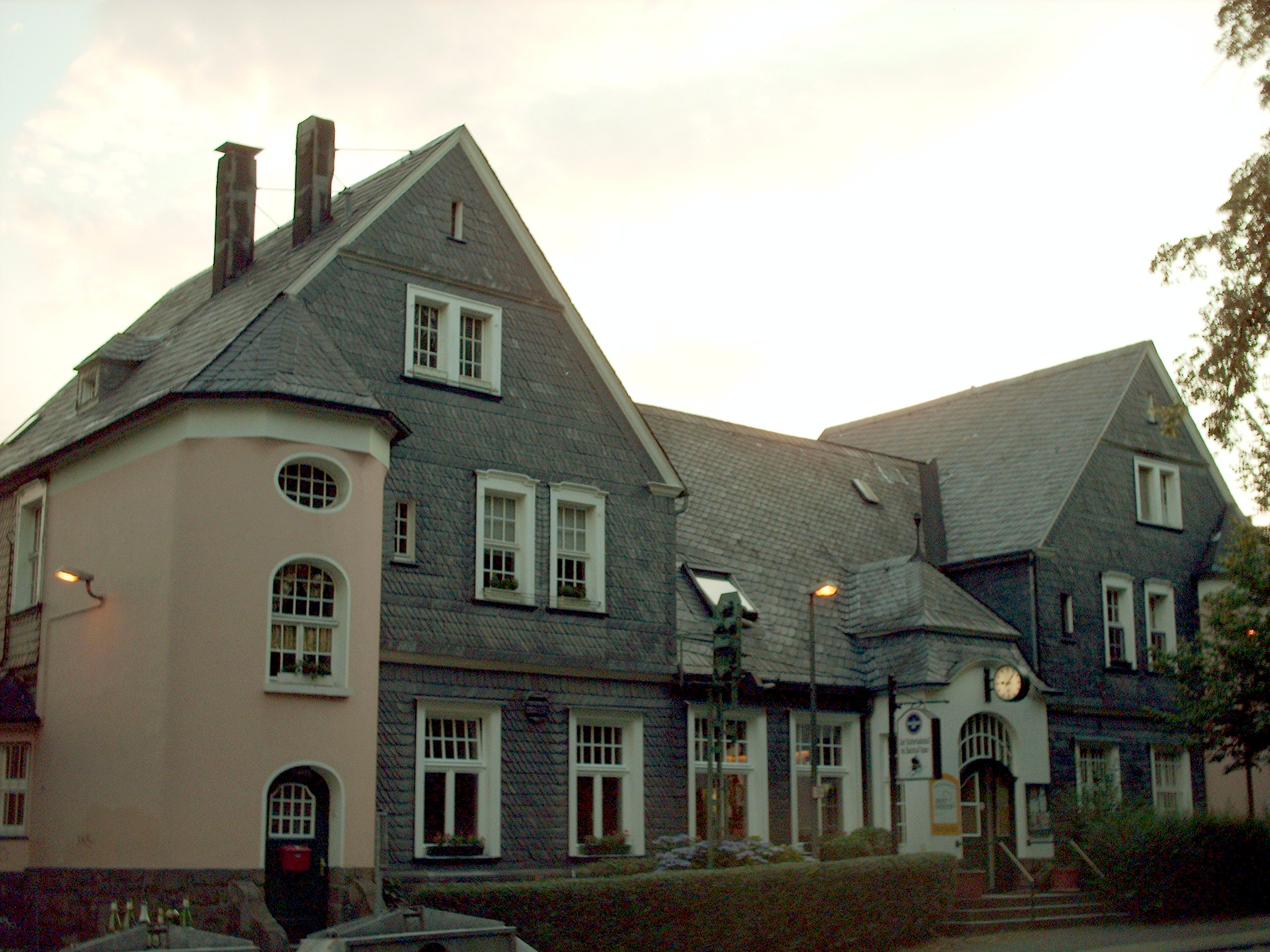 Haan station, Haan, Germany check usage